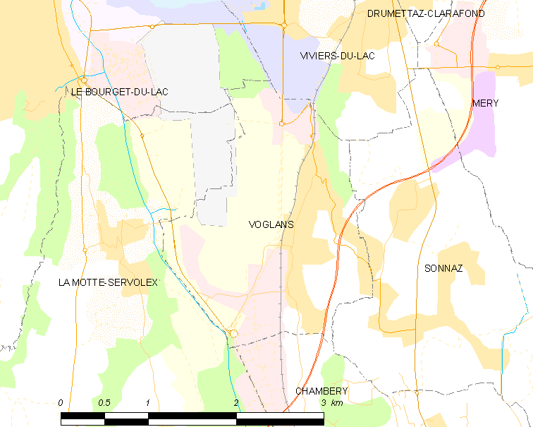 Map of French municipality Voglans